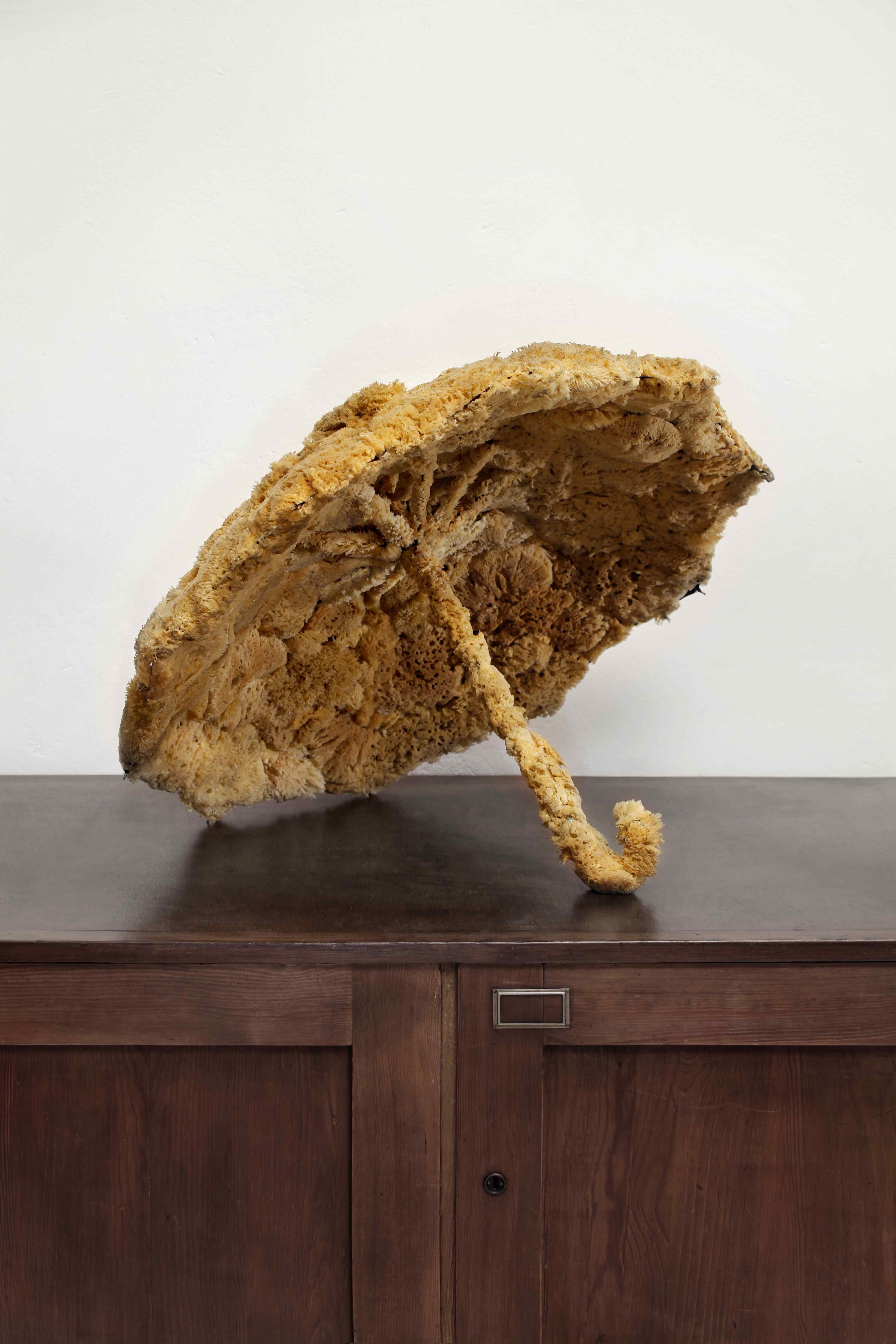 The second version of Paalen´s object "Nuage articulé" (originally executed in 1937 for the Internaional Surrealist Exhibition on Paris 1938), executed i Mexico 1939 in occasion of the International Surrealist Exhibition in Mexico-City (Galeria de Arte Mexicano 1940